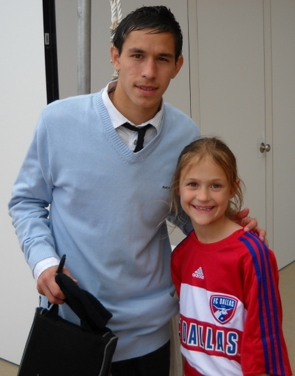 Eric Avila (left)